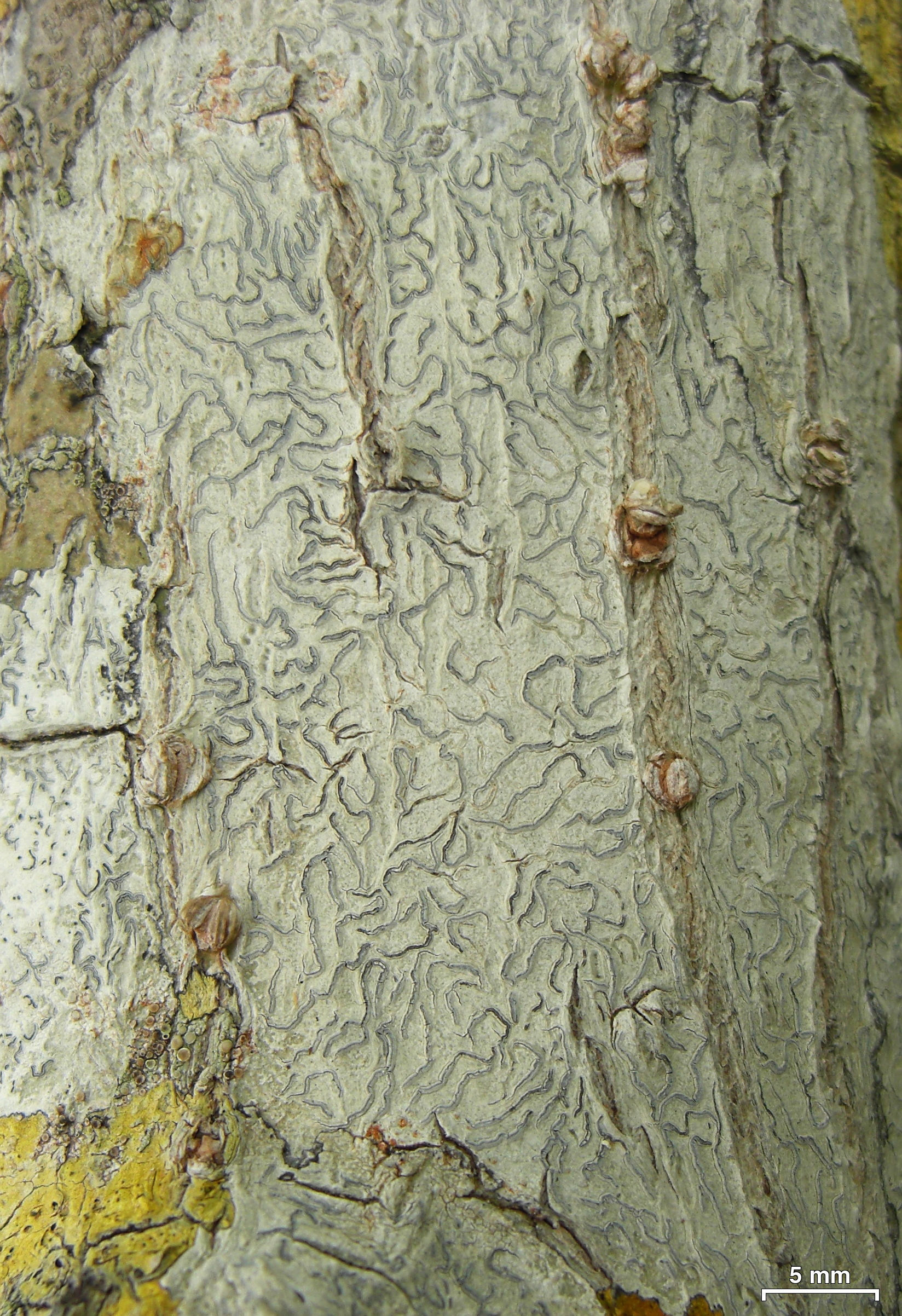 Buttonwood Bay, Key Largo, Florida, 20140126